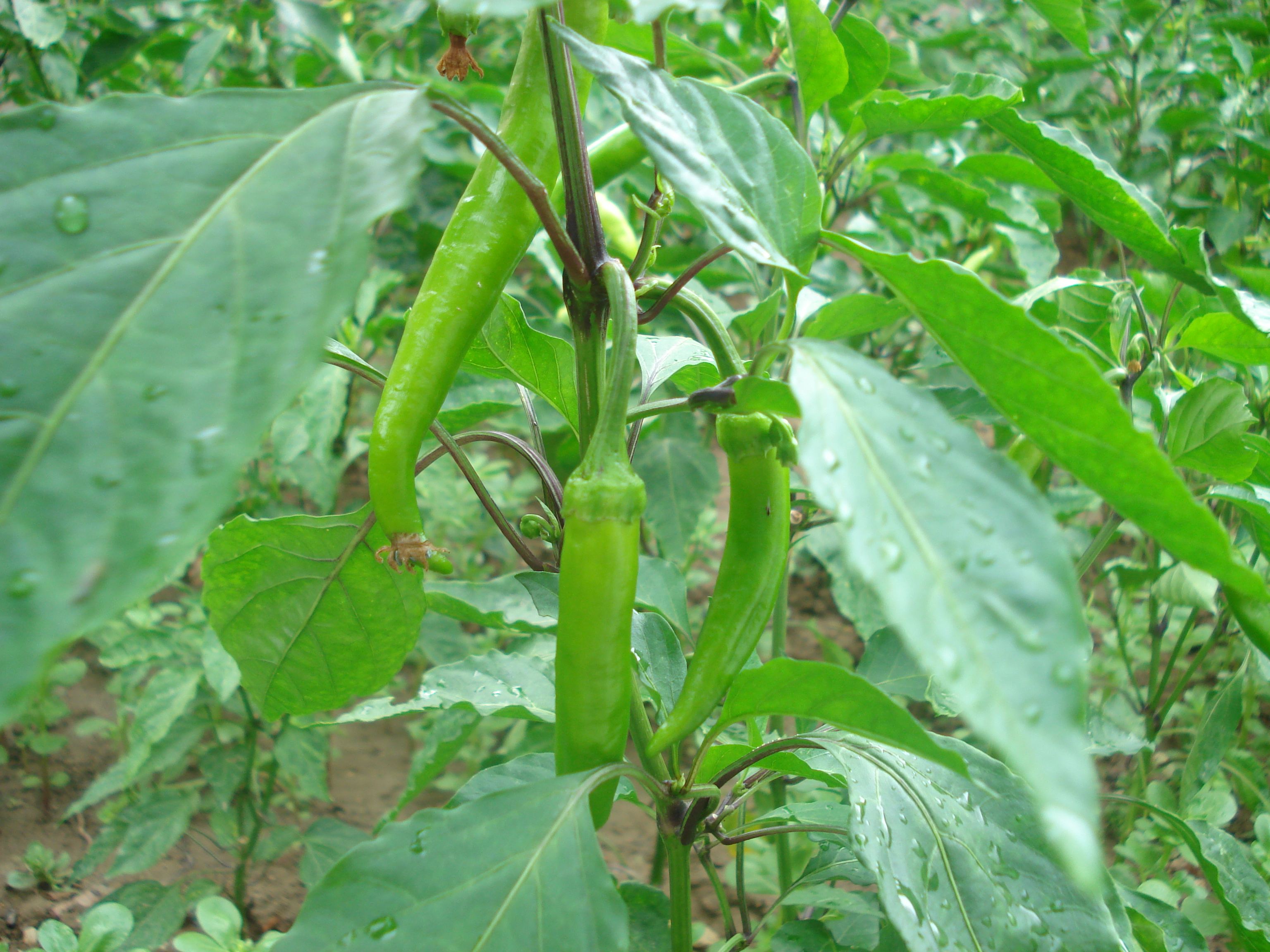 A kind of pepper from Turkey